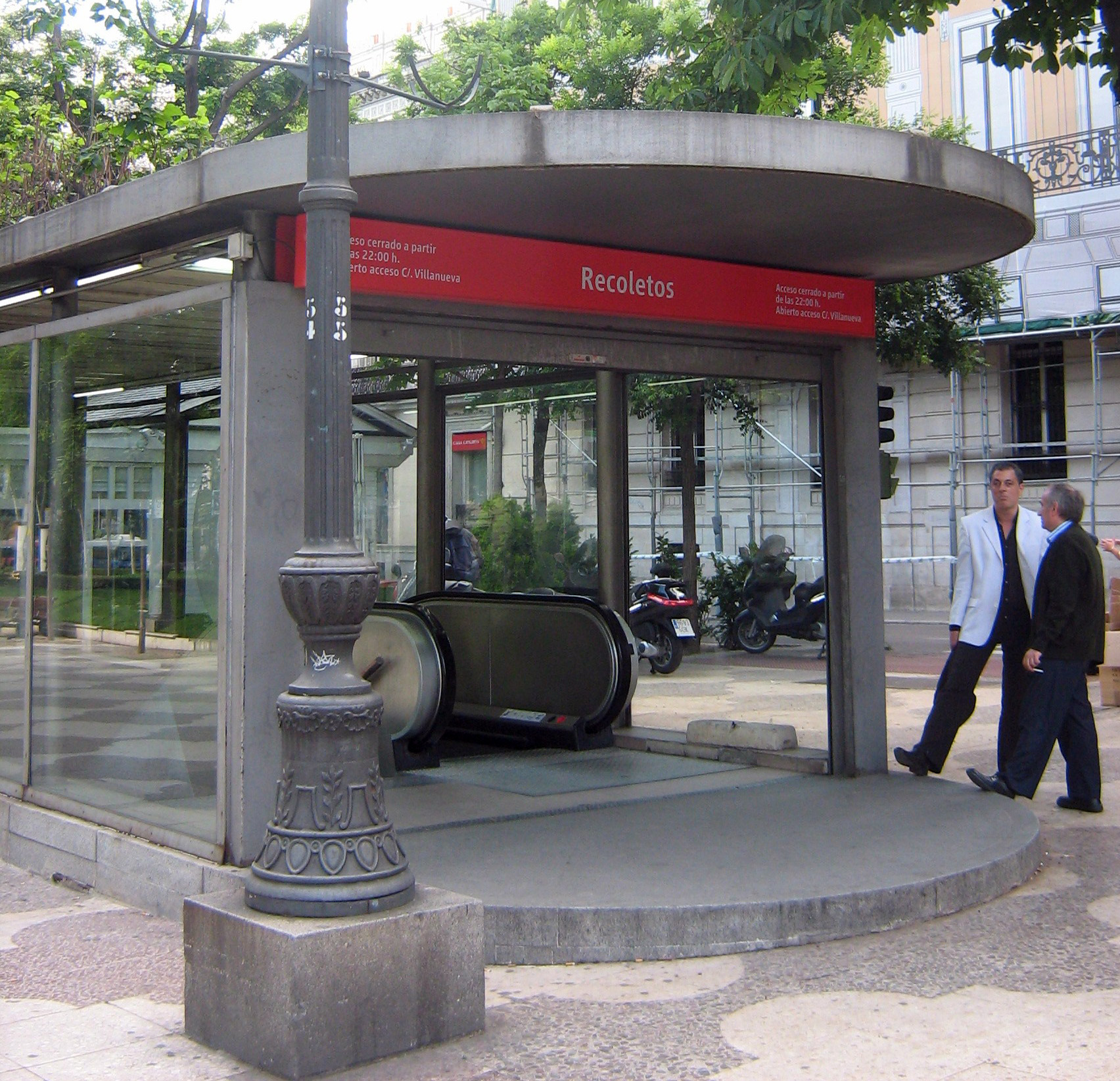 Recoletos Station (Madrid)